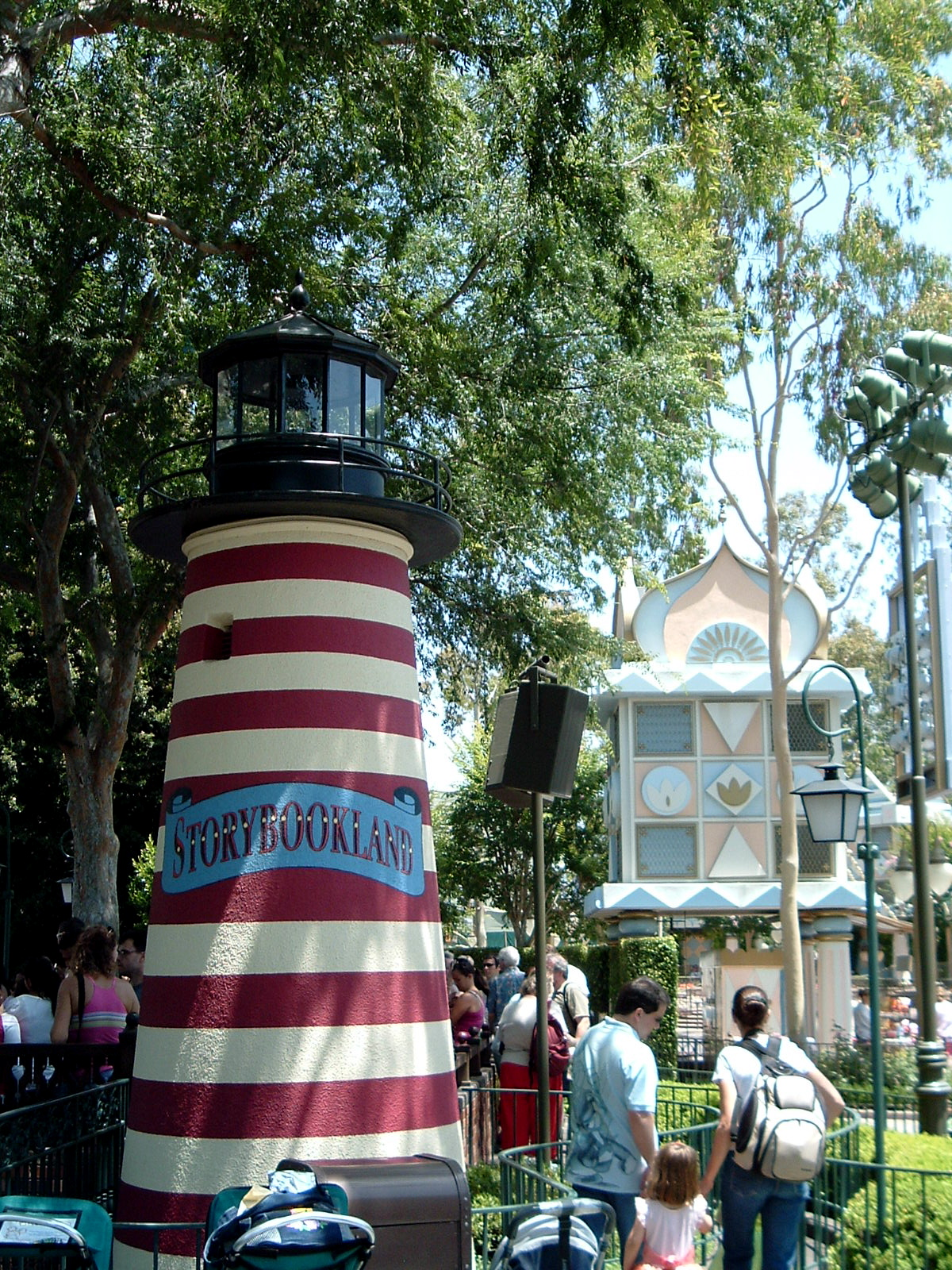 Lighthouse at the Entrance to Storybook Land